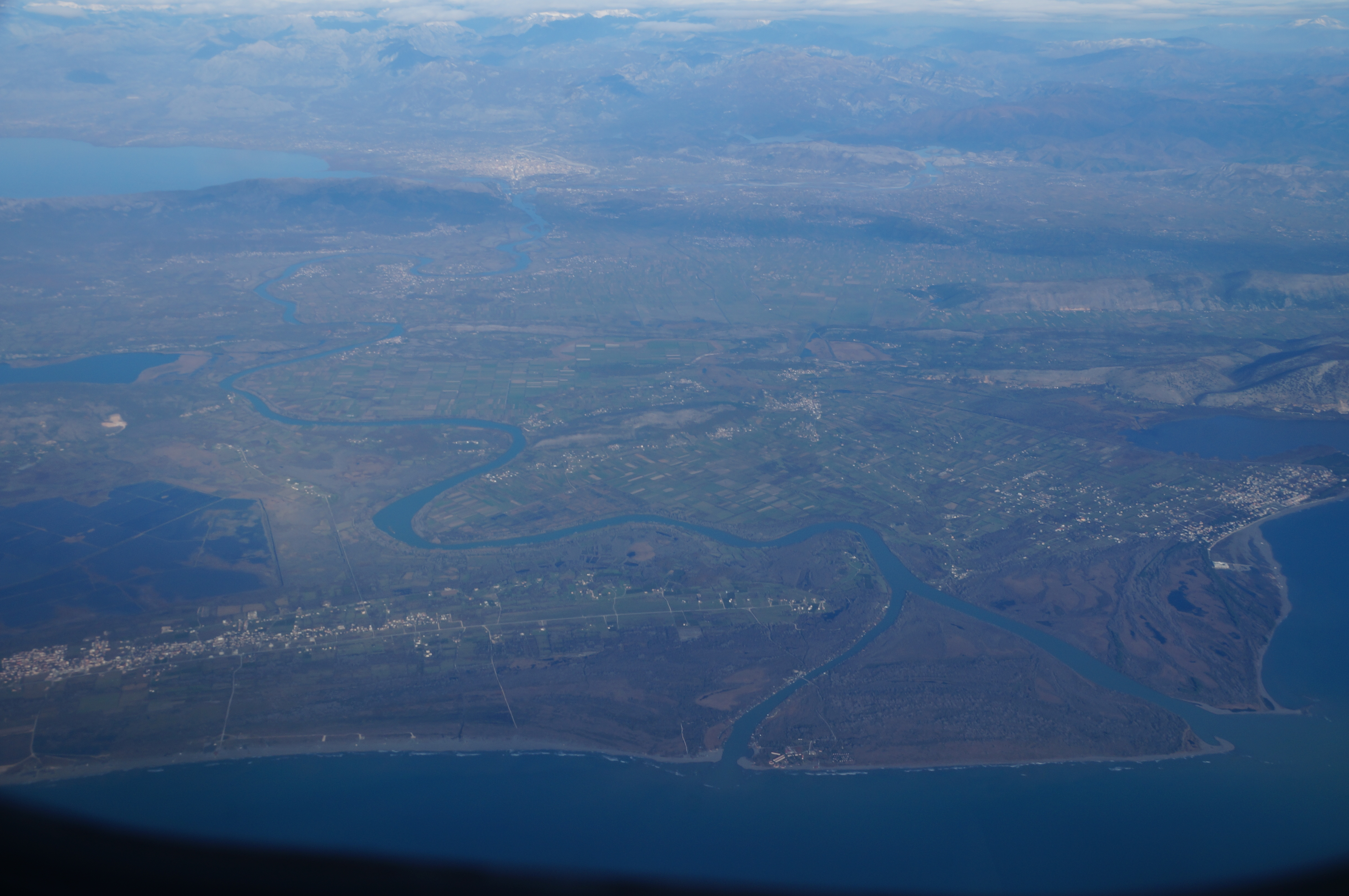 Buna River in its whole length with Lake Scutari and city of Shkodra in the top left corner and the Adriatic sea, the island of Ada Bojana and Velipoja beach resort at the bottom